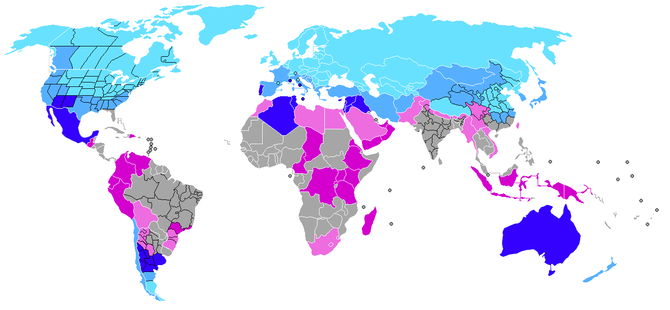 List of countries receiving snowfall. Snow in all of its territory. Snow below 500m over sea level, but not in all of its territory (esp. in some coastal and/or desertic areas) May snow below 500m over sea level, but rarely. Snow only above 500m over sea level. Snow only above 2000m over sea level. Without snow.